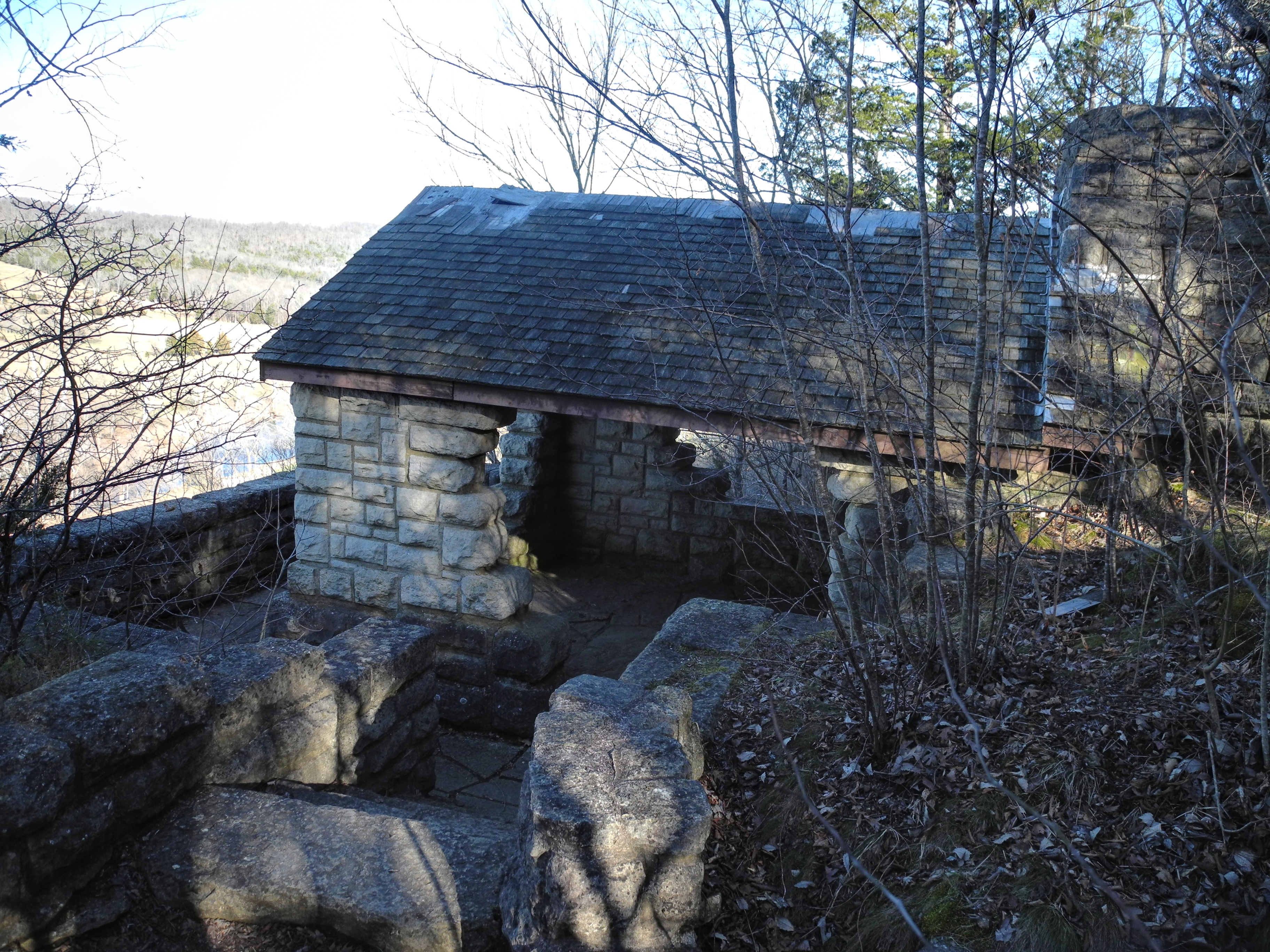 A stone shelter, constructed by the Civilian Conservation Corps in Washington State Park, Missouri, USA, looks out over the Big River valley.